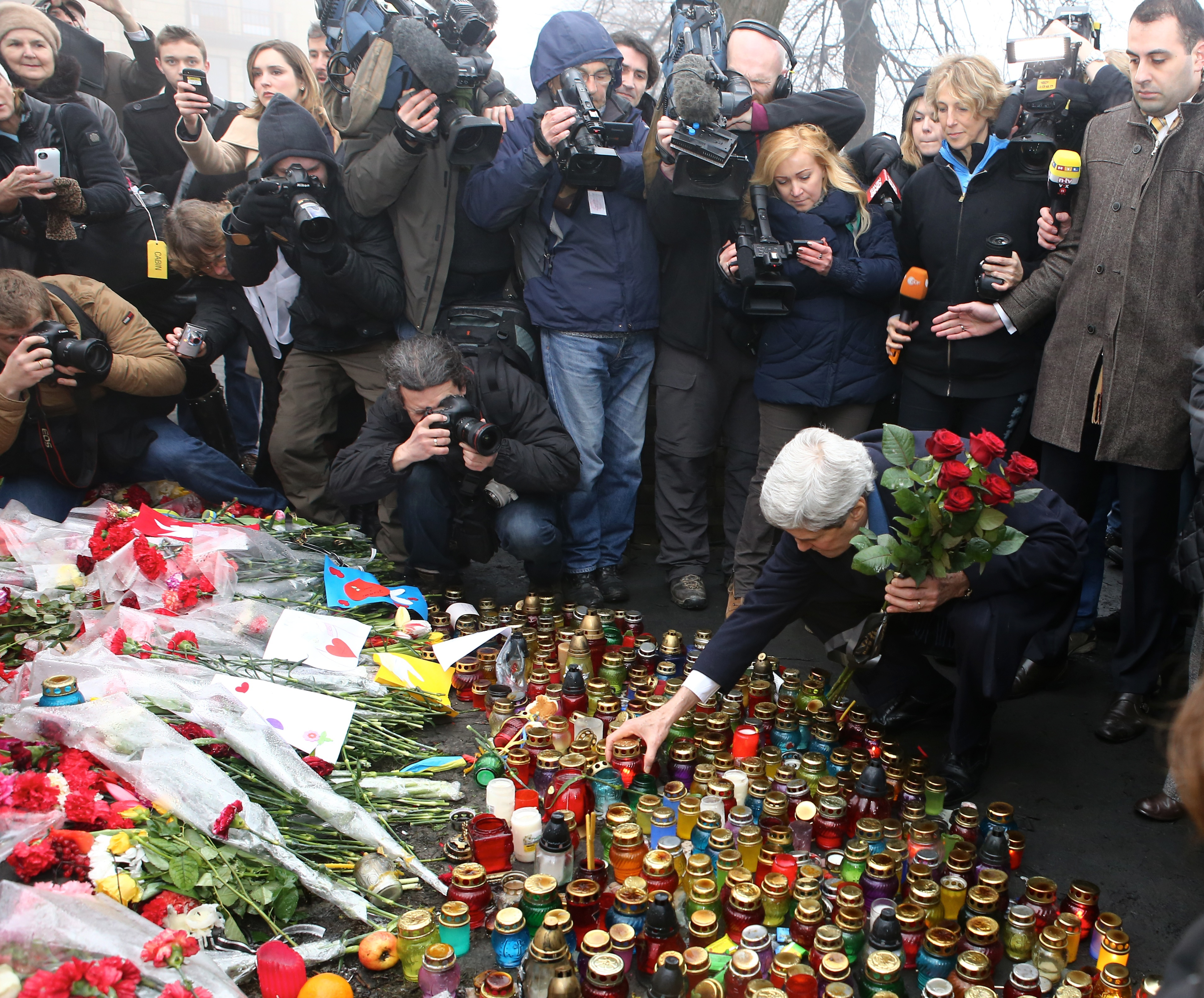 U.S. Secretary of State John Kerry places roses atop the Shrine of the Fallen in Kyiv, Ukraine, on March 4, 2014. [State Department photo/ Public Domain]